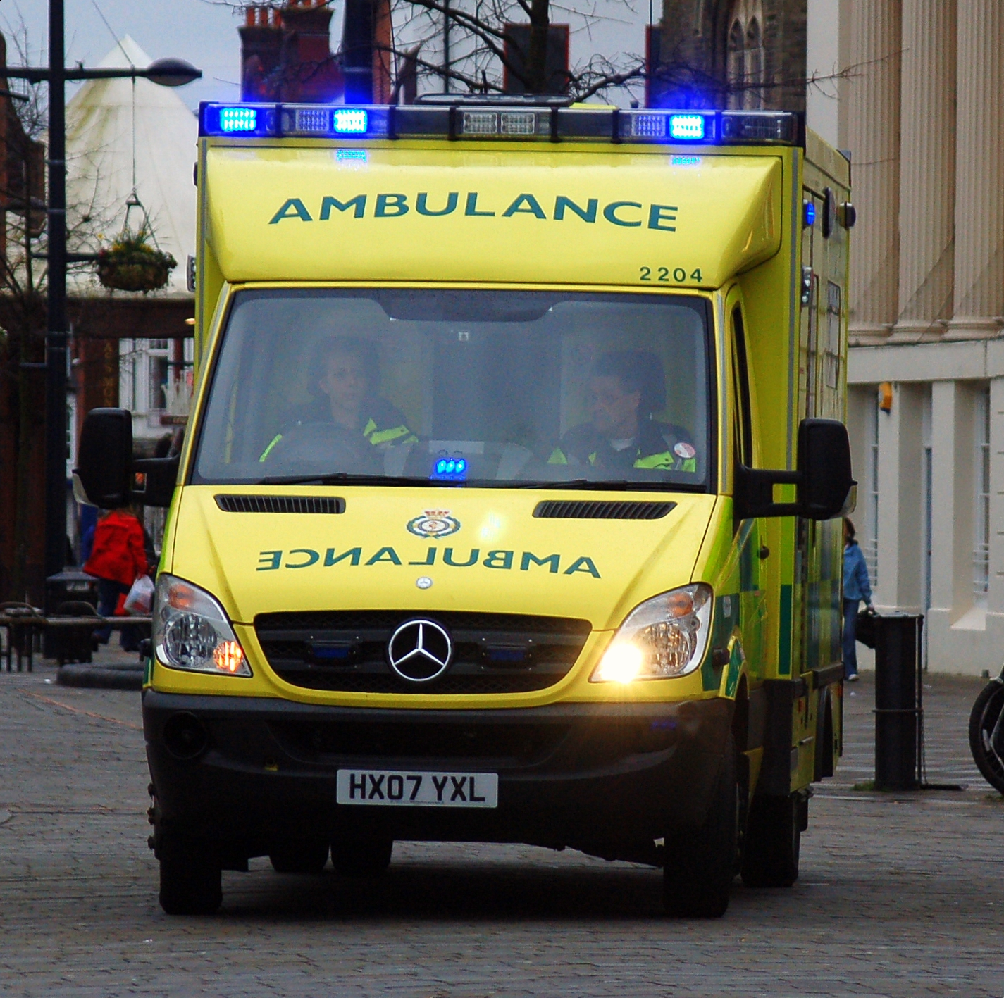 Taken relatively close to the ambulance's front during a run. This way the light bar on the roof and the wig-wag is shown. It even shows the small blue light on the dashboad. "AMBULANCE" appears in mirror writing ("ƎƆИАᒧUᗺMA"), so the writing appears right way round in rear view mirrors of vehicles ahead of it in traffic.